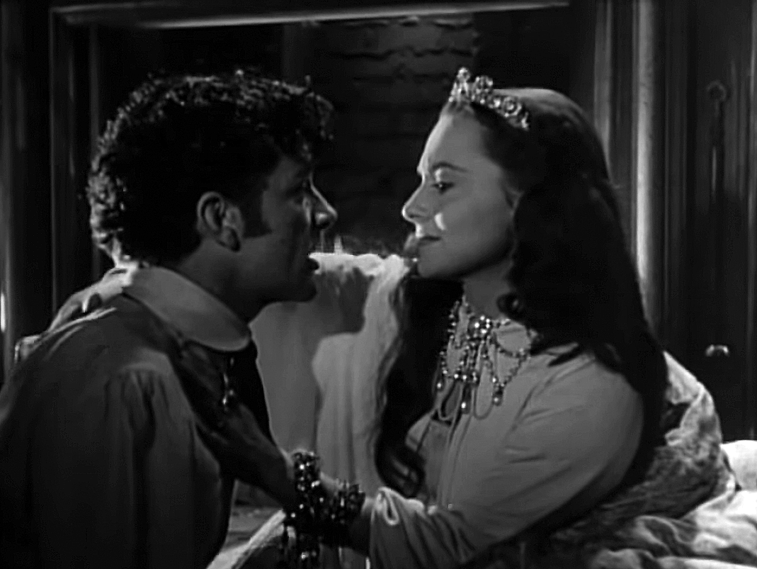 Trailer screenshot of My Cousin Rachel (1952)